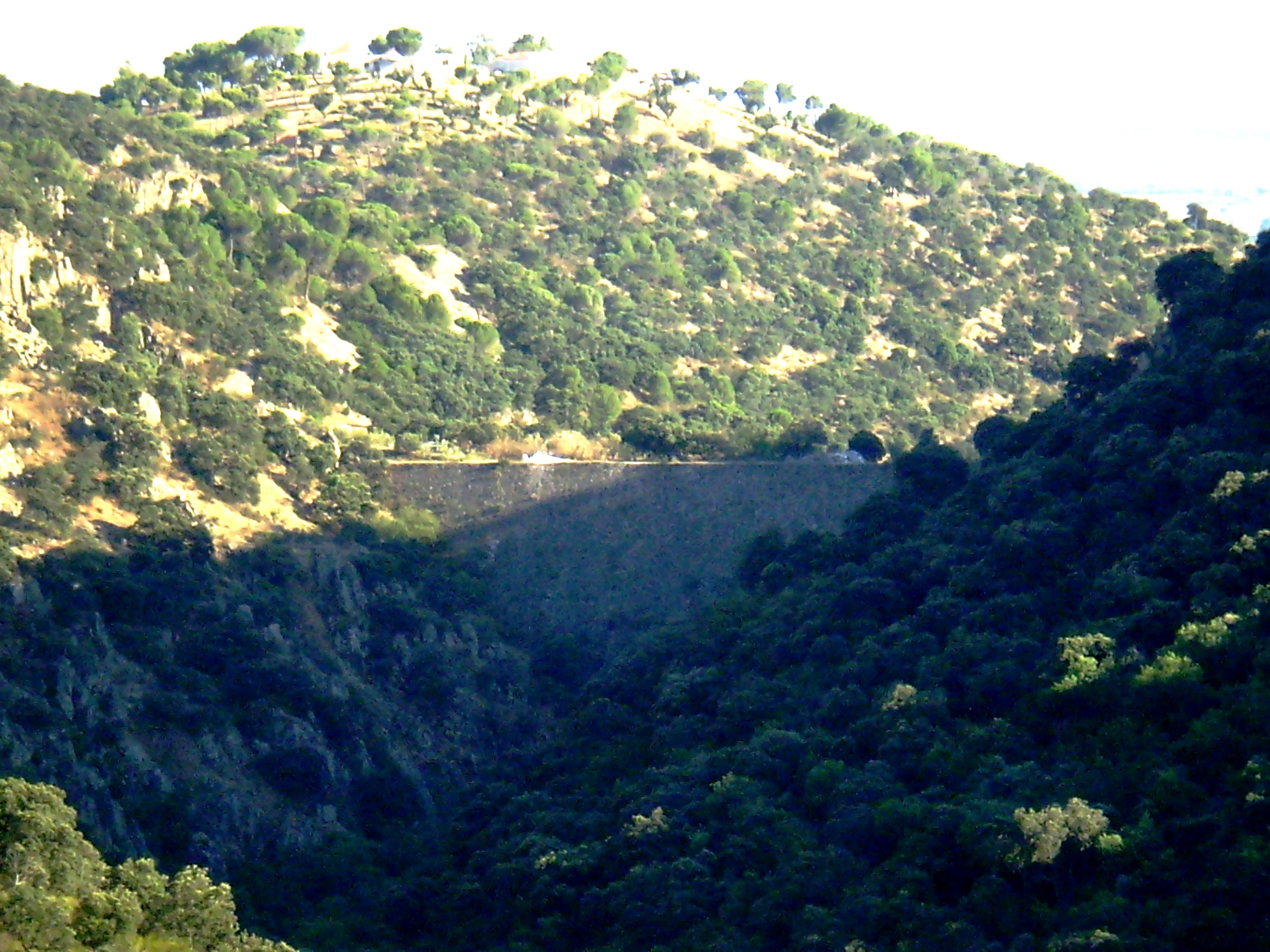 Presa de El Gasco, Torrelodones, Community of Madrid, Spain